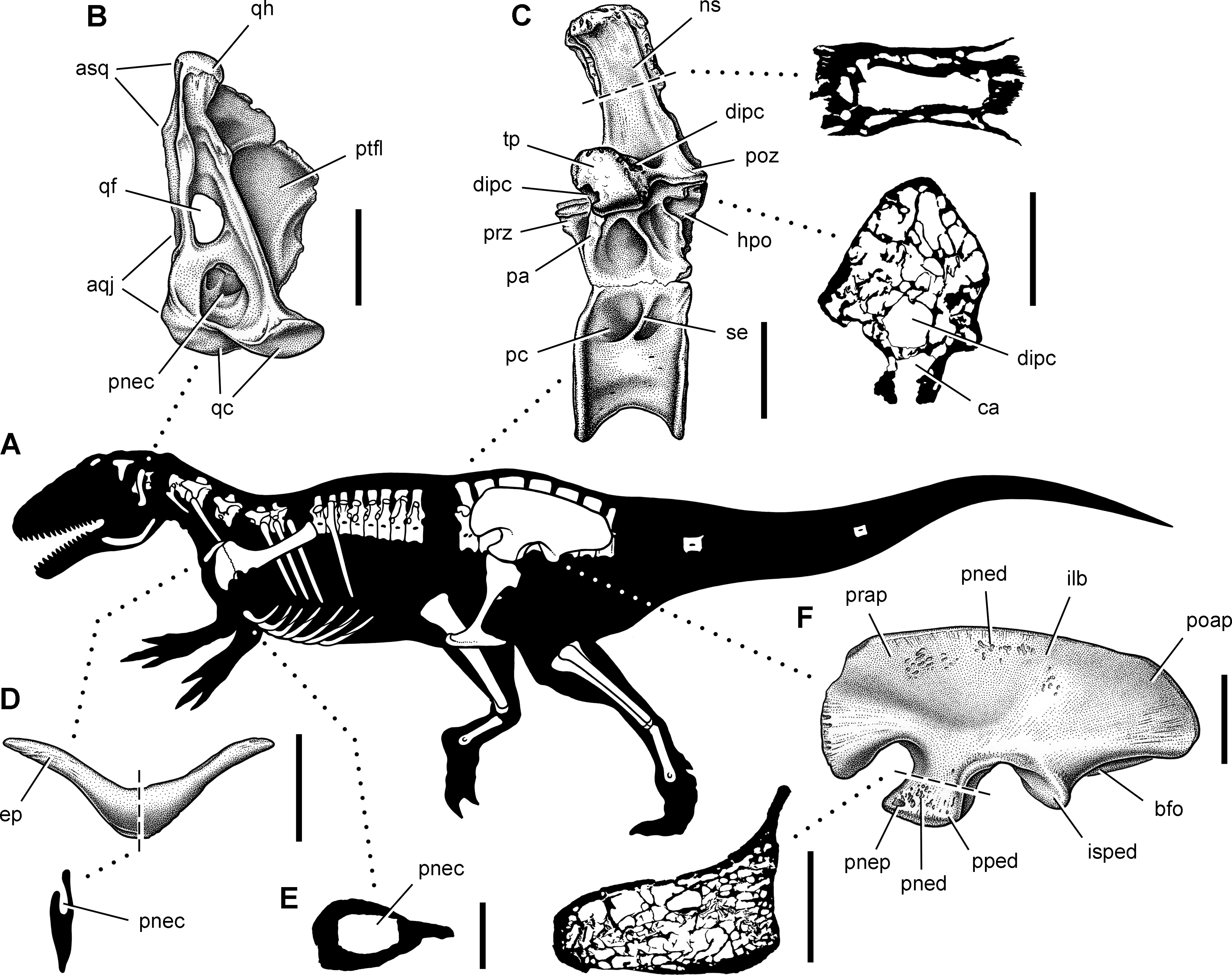 Original caption: "Figure 16. Summary of pneumatic features of the theropod Aerosteon riocoloradensis. (A)-Silhouette reconstruction in left lateral view showing preserved bones of the holotype and referred specimens (MCNA-PV-3137-3139); body length approximately 9-10 m. (B)-Left quadrate in posterior view. (C)-Dorsal 14 in left lateral view with enlarged cross-sections of the neural spine and transverse process. (D)-Furcula in anterior view with sagittal cross-section. (E)-Cross-section of medial gastral element from the anterior end of the cuirass showing pneumatocoel. (F)-Left ilium in lateral view with enlarged cross-section of pubic peduncle. Scale bars equal 5 cm in B, 10 cm (3 cm for cross-sections) in C, 10 cm (same for cross-section) in D, 2 cm in E, and 20 cm (6 cm for cross-section) in F. Abbreviations: aqj, articular surface for the quadratojugal; asq, articular surface for the squamosal; bfo, brevis fossa; ca, canal; dipc, diapophyseal canal; ep, epicleideum; hpo, hyposphene; ilb, iliac blade; isped, ischial peduncle; ns, neural spine; pa, parapophysis; pc, pleurocoel; pnec, pneumatocoel; pned, pneumatic depression; pnep, pneumatopore; poap, postacetabular process; poz, postzygapophysis; pped, pubic peduncle; prap, preacetabular process; prz, prezygapophysis; ptfl, pterygoid flange; qc, quadrate condyles; qf, quadrate foramen; qh, quadrate head; se, septum; tp, transverse process."